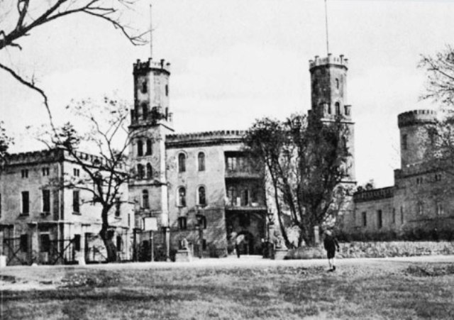 Front view of the old palace in Świerklaniec. He was build in the 19th century in the Tudor Stile and burned down in 1945. The ruins were pulled down in 1961.